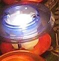 Bumper in the Addams-Family pinball game